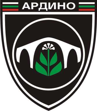 Emblem of Ardino, Bulgaria